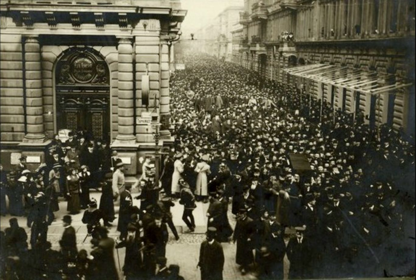 Funeral procession of Rabbi Eliyahu Chaim Meisel, Chief Rabbi of Lodz, 7.5.1912